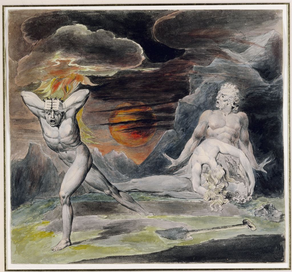 William Blake British (London, England 1757 - 1827 London, England) Cain Fleeing from the Wrath of God (The Body of Abel Found by Adam and Eve), c. 1805-1809 Alternate Title: The Body of Abel Found by Adam and Eve Drawing British 19th century Watercolor and black ink over graphite on cream wove paper 30.3 x 32.6 cm (11 15/16 x 12 13/16 in.) frame: 63.4 x 62 cm (24 15/16 x 24 7/16 in.) Harvard Art Museums/Fogg Museum, Bequest of Grenville L. Winthrop , 1943.401 Department of Drawings , Division of European and American Art